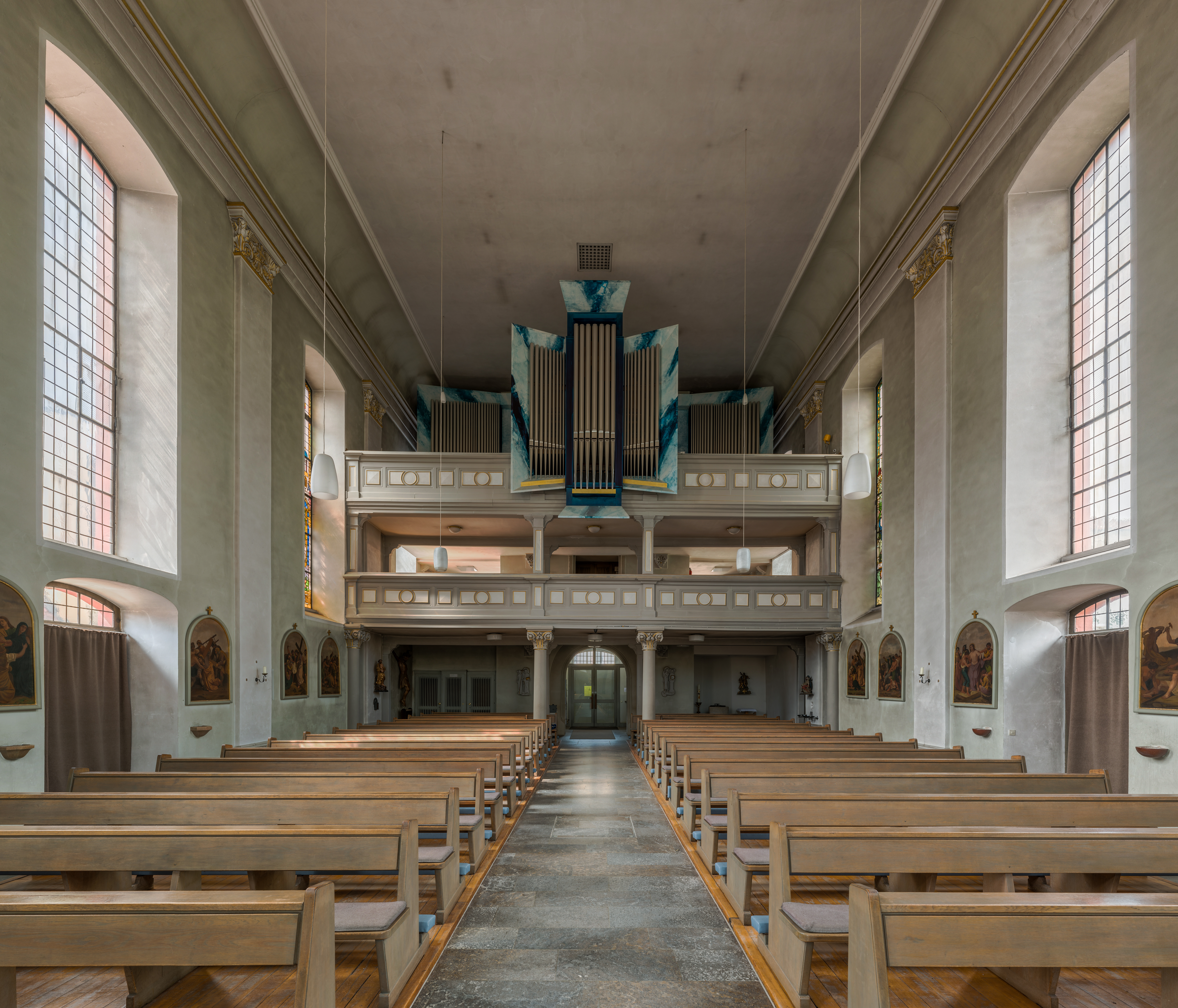 An interior view of St. Bartholomäus, Bad Brückenau